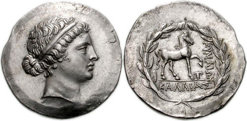 Kyme, Aeolis, 165-140 BC. Silver Tetradrachm (31mm, 16.46 g). Kallias, magistrate. Head of the Amazon Kyme right, wearing taenia / ΚΥΜΑΙΩΝ (of Cumeans), horse standing right; one-handled cup below raised foreleg; ΚΑΛΛΙΑΣ (Kallias) in exergue; all within wreath.